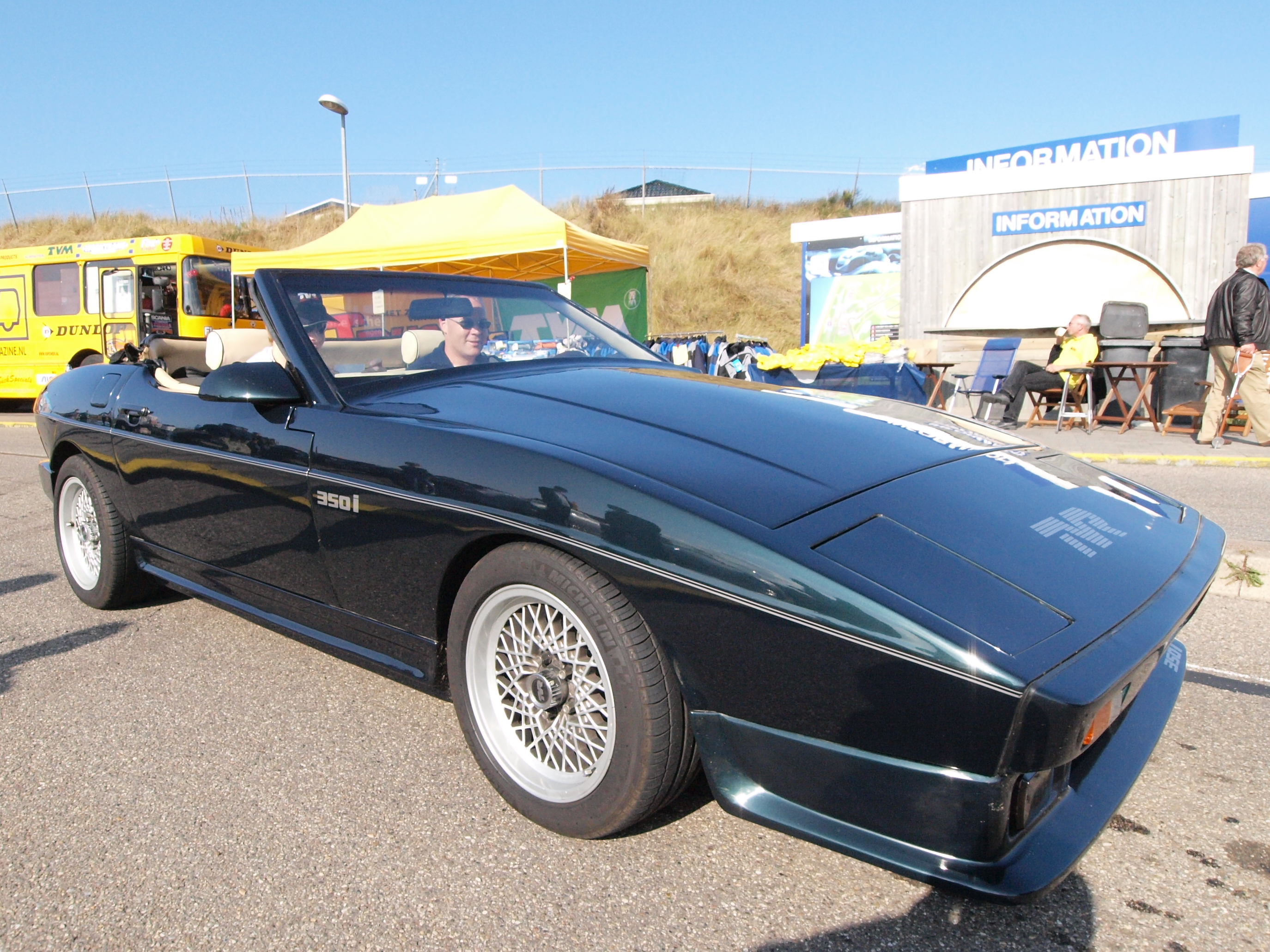 Photographed at the Nationaal Oldtimer Festival Zandvoort 2009, The Netherlands. OLYMPUS DIGITAL CAMERA